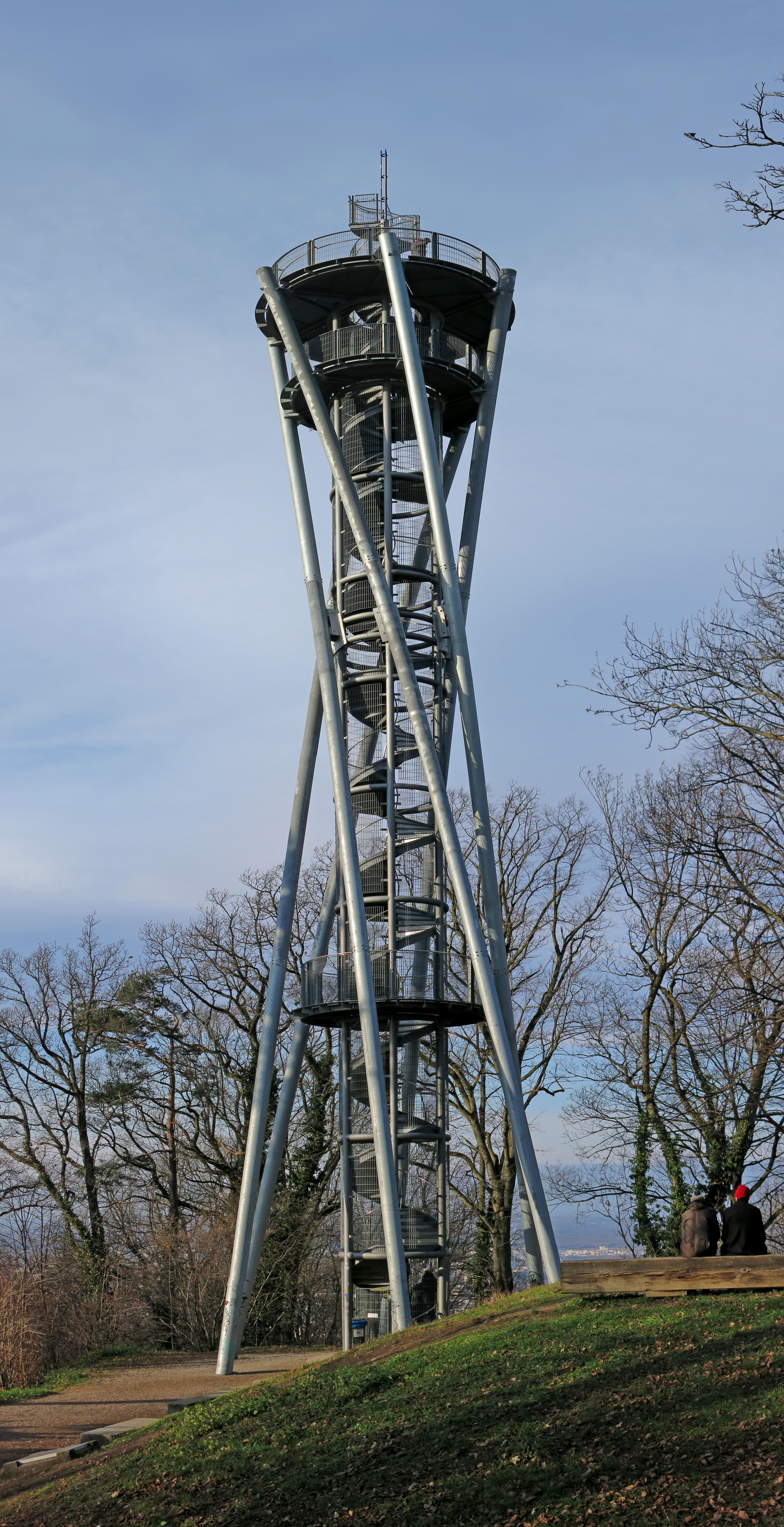 The lookout tower on the Schlossberg near Freiburg